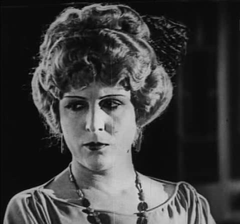 Ethel Grey Terry in Peg o' My Heart (1922).